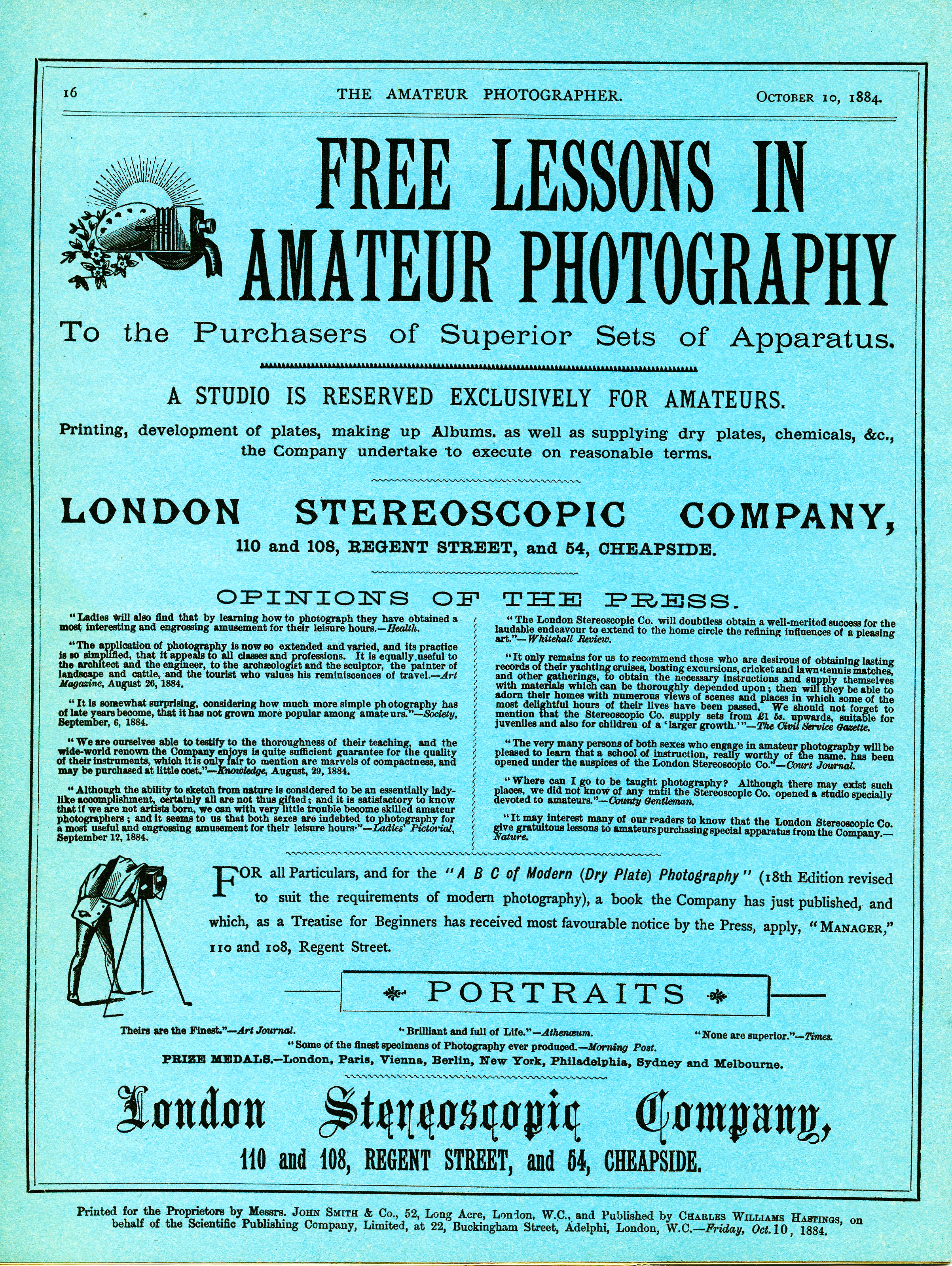 The Amateur_Photographer, Vol 1, No 1, rear cover